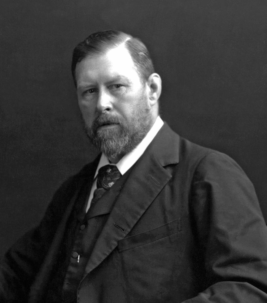 Bram Stoker (1847—1912), an Irish music critic, novelist and author of the popular horror tale Dracula (1897).